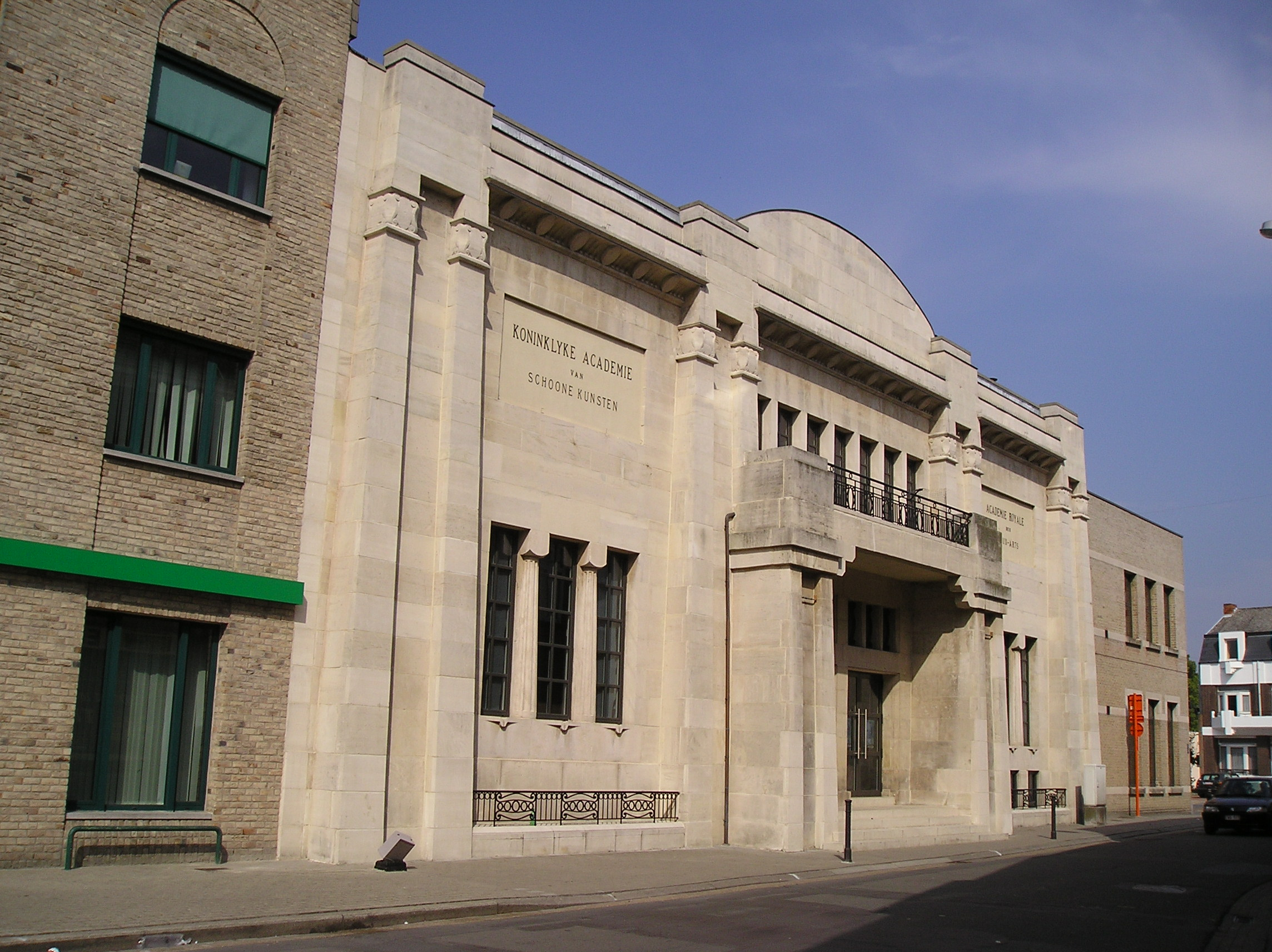 Royal academy of the fine arts (art school) in Dendermonde